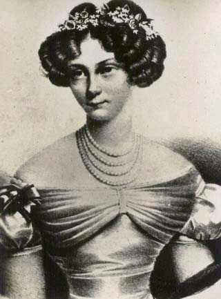 Princess Luise of Prussia (1808-70), wife of Prince Frederick of the Netherlands